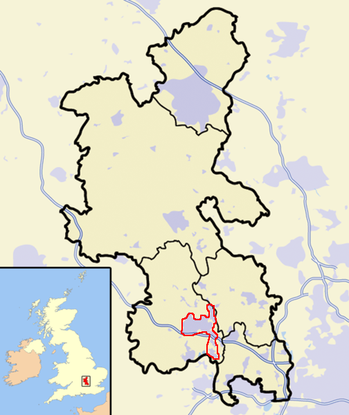 High Wycombe Urban Area marked within Buckinghamshire